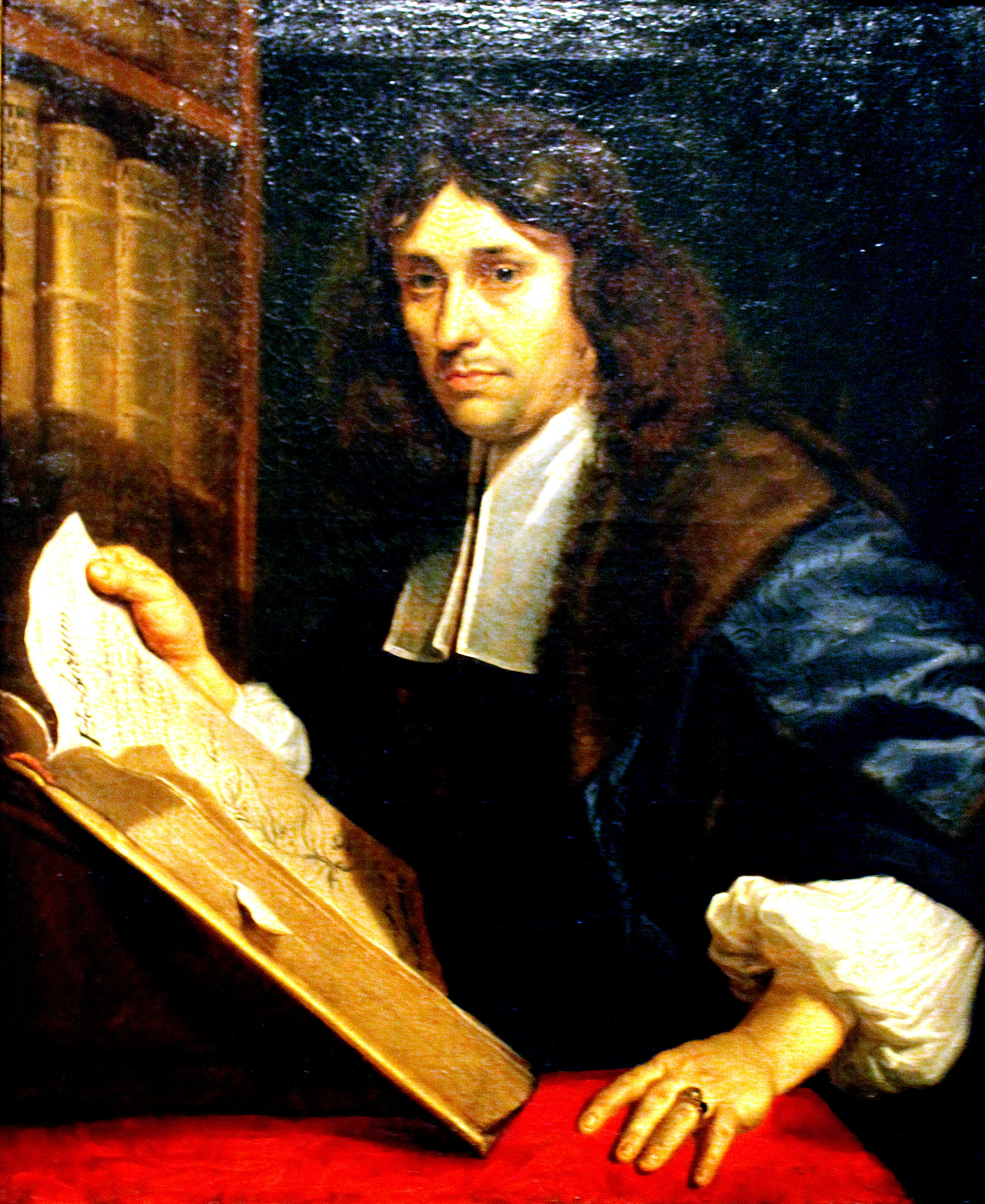 Würzburg, Mainfränkisches Museum, Oswald Onghers, portret of Jacob Amling